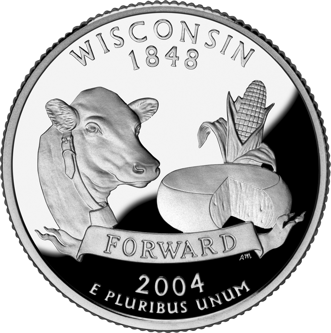 Removed background, cropped, and converted to PNG with Macromedia Fireworks. This image depicts a unit of currency issued by the United States of America. If Fraudulent use of this image is punishable under applicable counterfeiting laws. As listed by the United States Secret Service at money illustrations, the Counterfeit Detection Act of 1992, Public Law 102-550, in Section 411 of Title 31 of the Code of Federal Regulations (31 CFR 411), permits color illustrations of U.S. currency provided:1. The illustration is of a size less than three-fourths or more than one and one-half, in linear dimension, of each part of the item illustrated;2. The illustration is one-sided; and3. All negatives, plates, positives, digitized storage medium, graphic files, magnetic medium, optical storage devices, and any other thing used in the making of the illustration that contain an image of the illustration or any part thereof are destroyed and/or deleted or erased after their final use. Certain coins contain copyrights licensed to the U.S. Mint and owned by third parties or assigned to and owned by the U.S. Mint [1]. For the United States Mint circulating coin design use policy, see [2]; for the policy on the 50 State Quarters, see [3]. Also: COM:ART #Photograph of an old coin found on the Internet